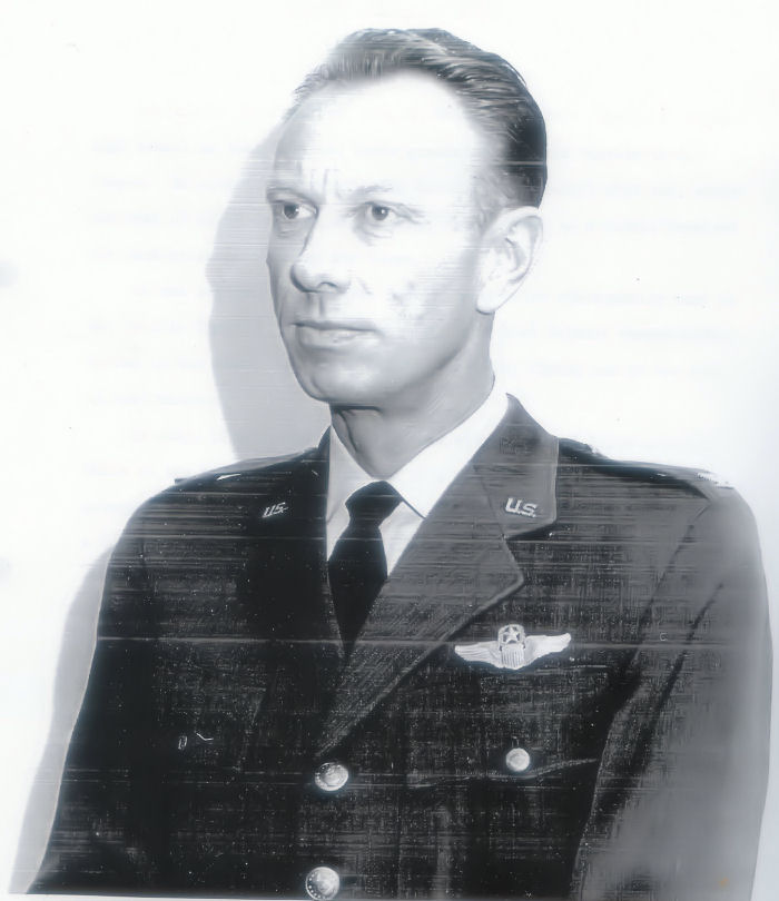 USAF Colonel Robert G. Emmens, 1956 Participant in the Doolittle Raid over Tokyo, 1942. Builder of Myrtle Beach AFB, SC, 1955 USAF Photo